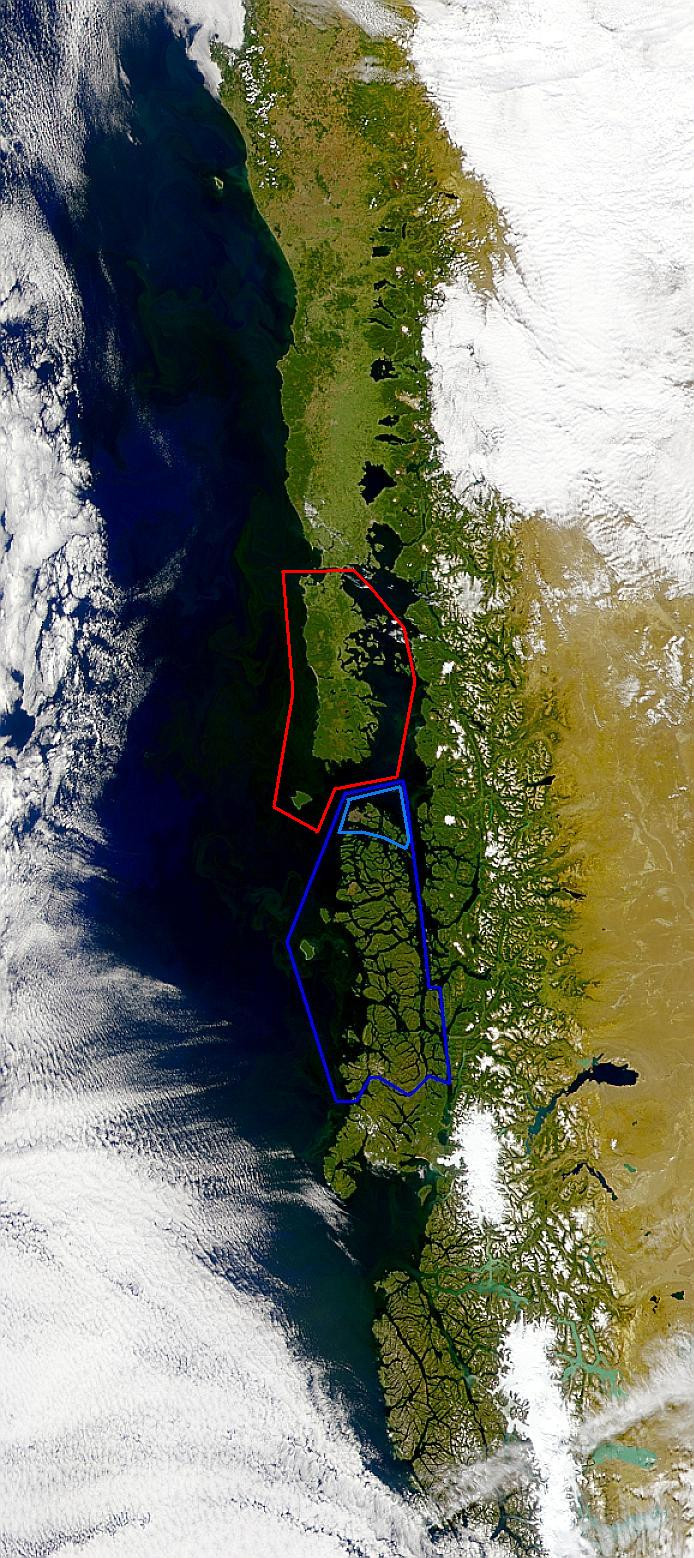 Satellite photo showing archipelagos off the West coast of Chile.